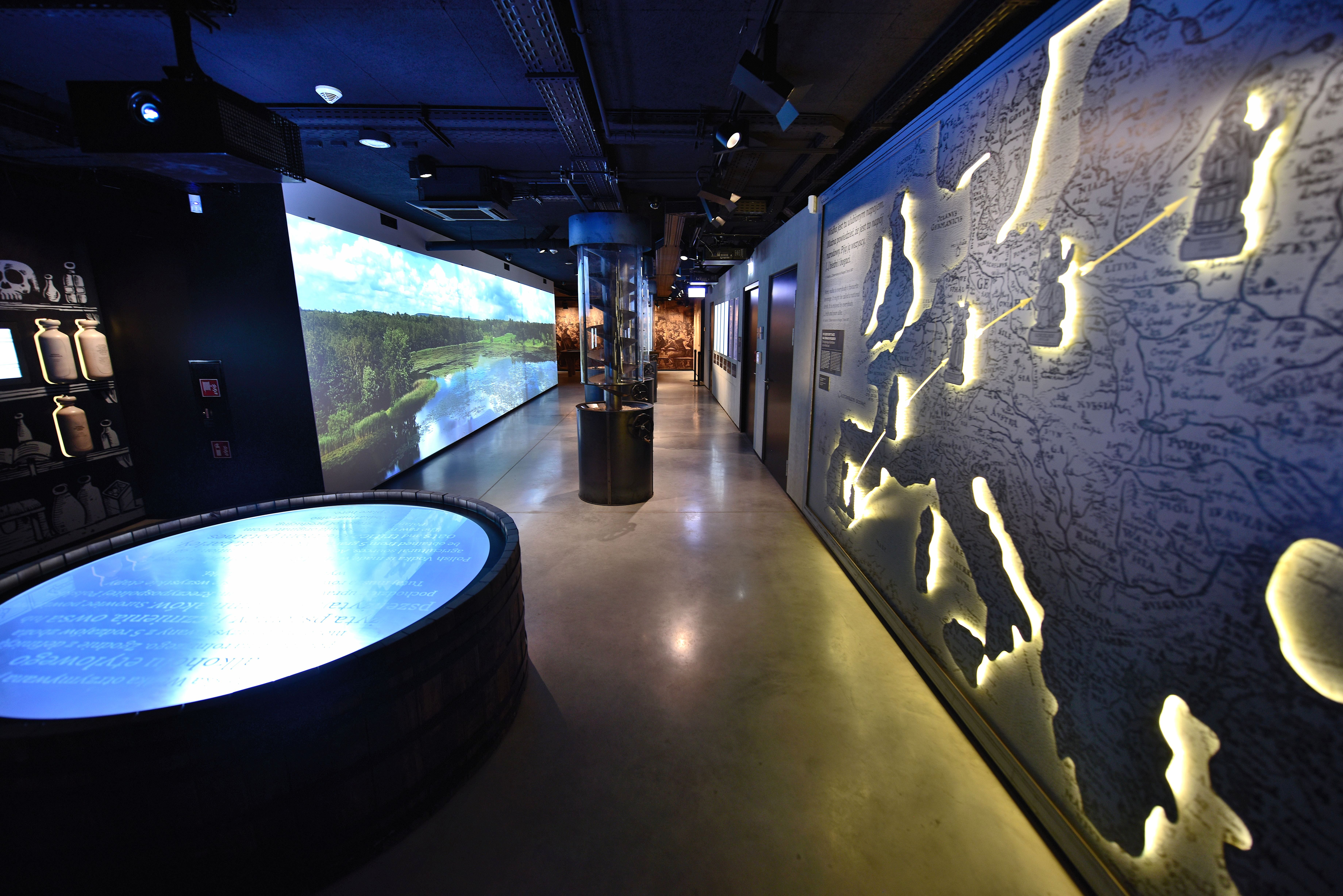 Polish Vodka Museum in Warsaw. Gallery 1.